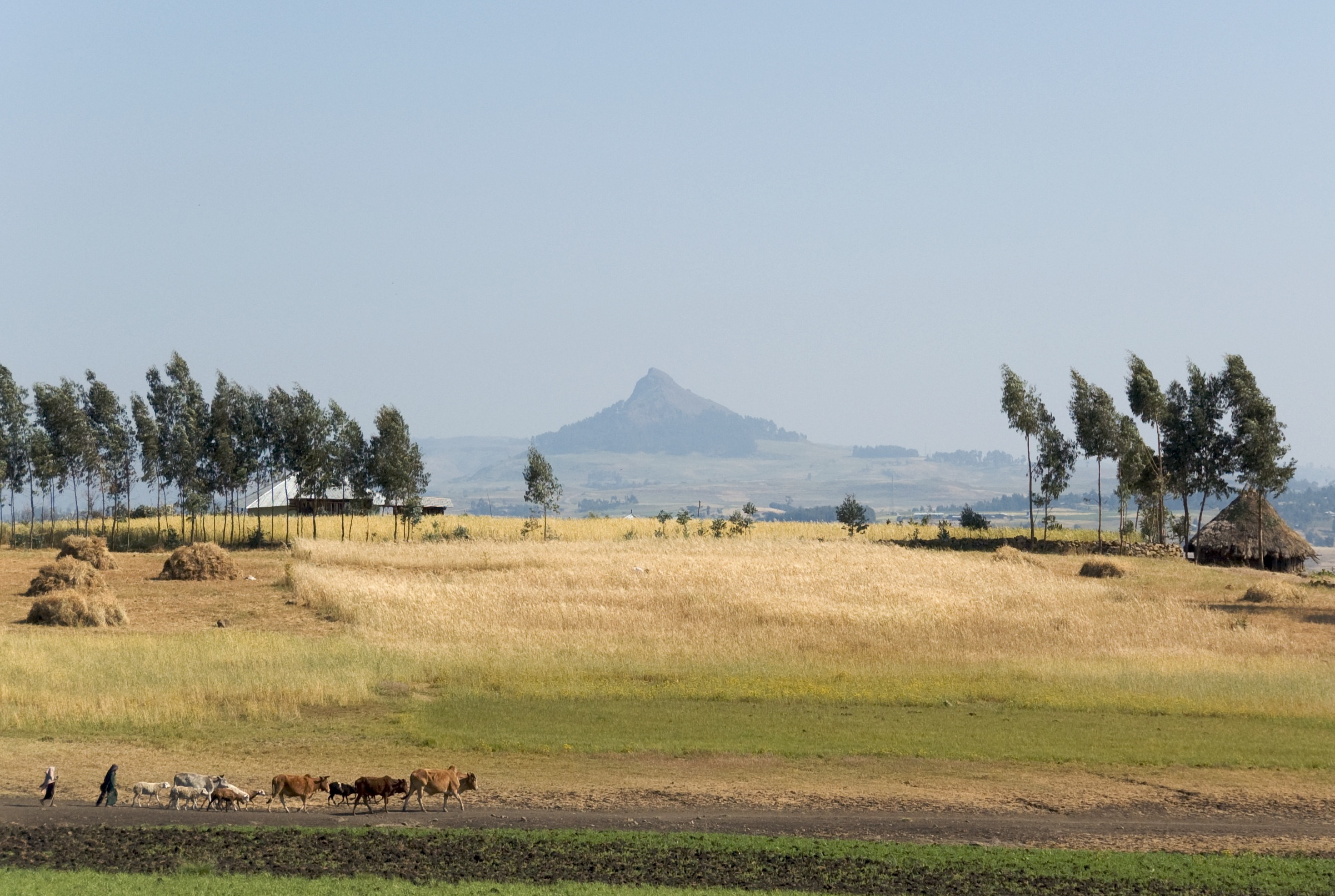 On The Road To Simien Mountains National Park, Ethiopia